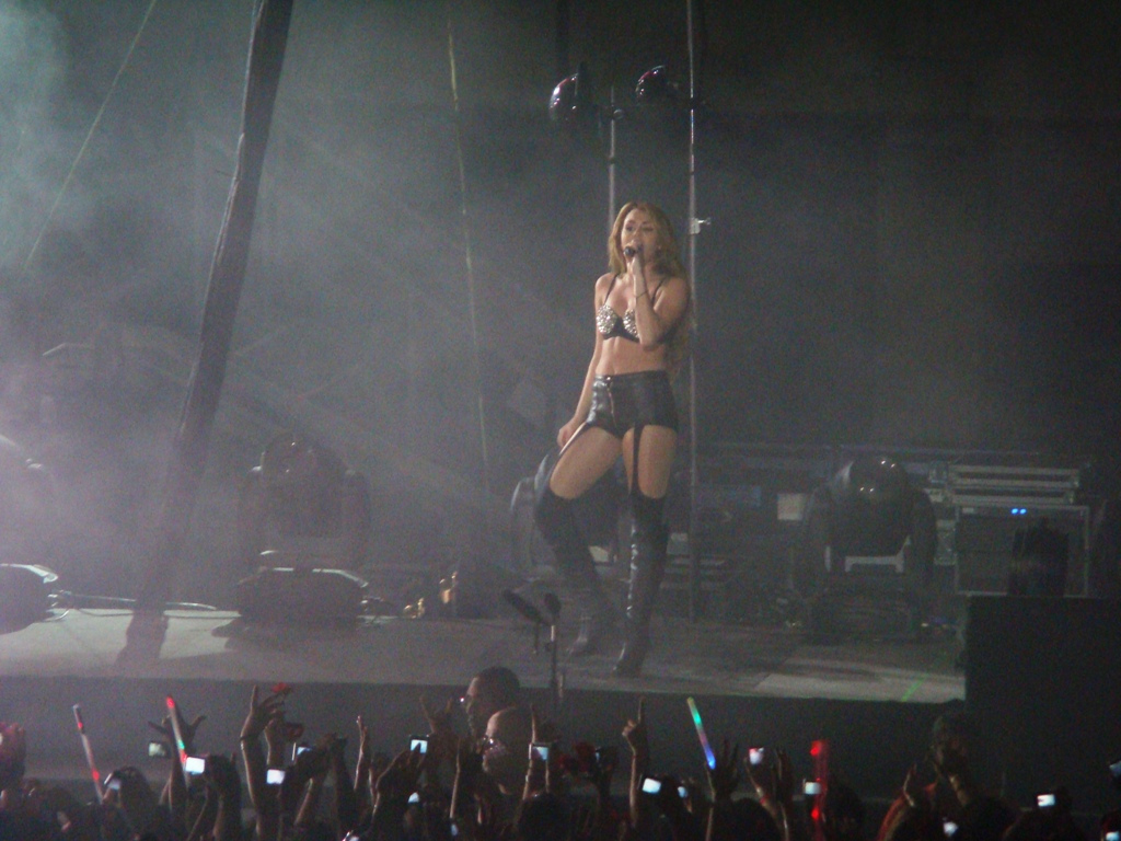 Miley Cyrus singing live in Curicica, Rio de Janeiro, RJ, BR from her tour 'Gypsy Heart'